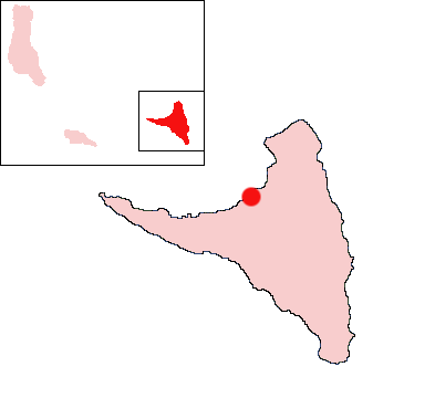 Mutsamudu, Anjouan, Comoros Location Map; created with the GIMP. Made by User:Acntx.